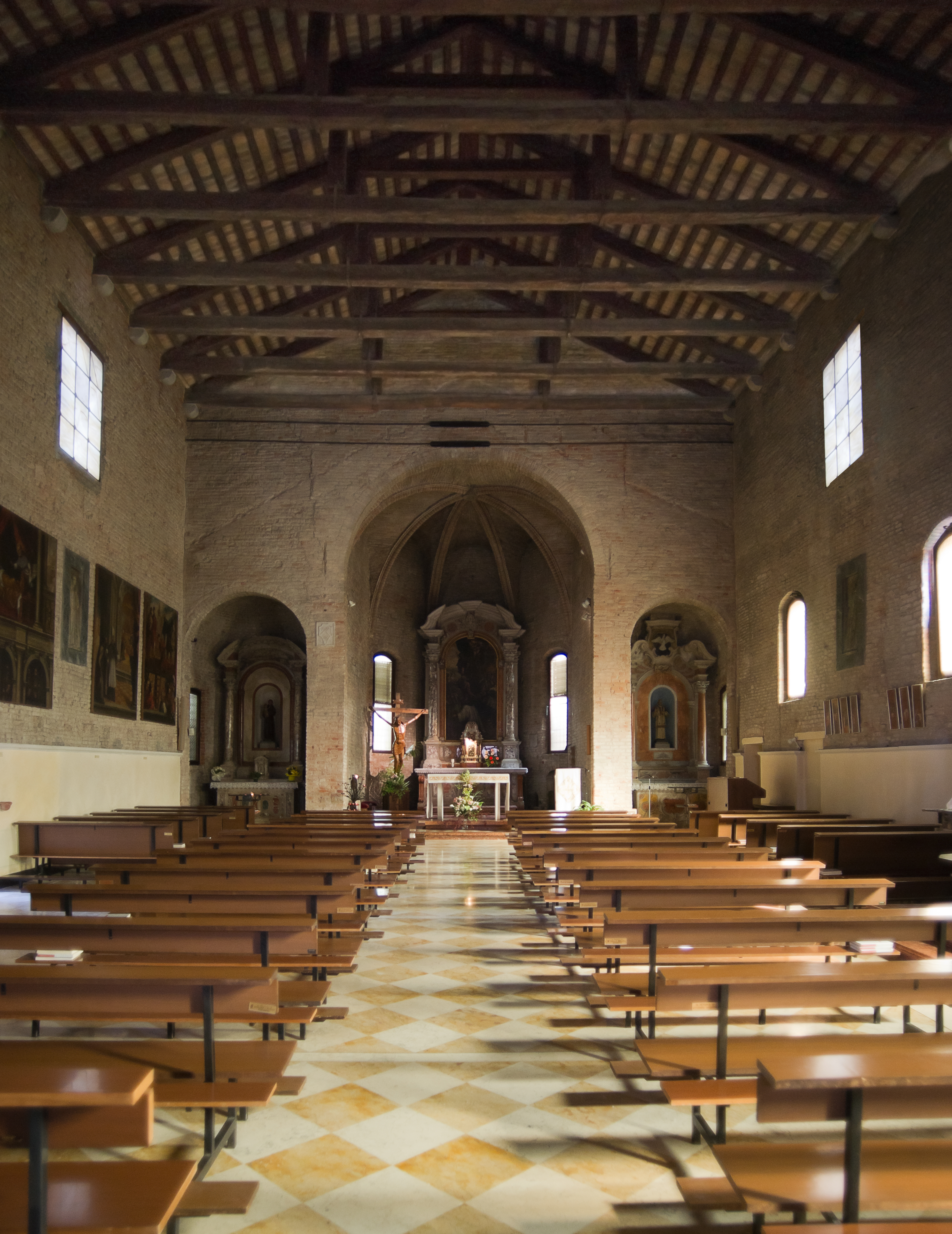 Church of St. Jerome, Mestre